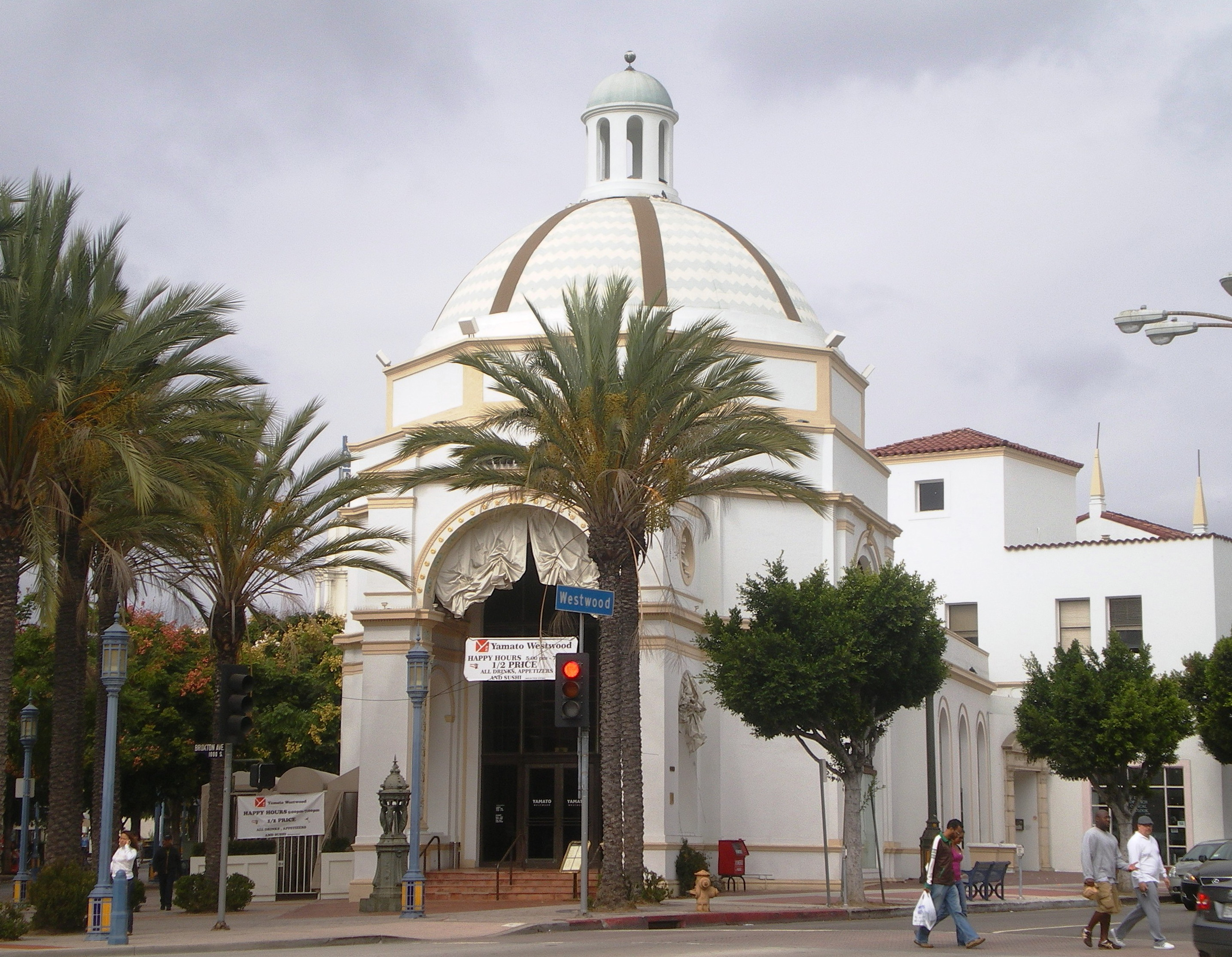 Janss Investment Company Building, 1045-1099 Westwood Blvd., Westwood, Los Angeles, California